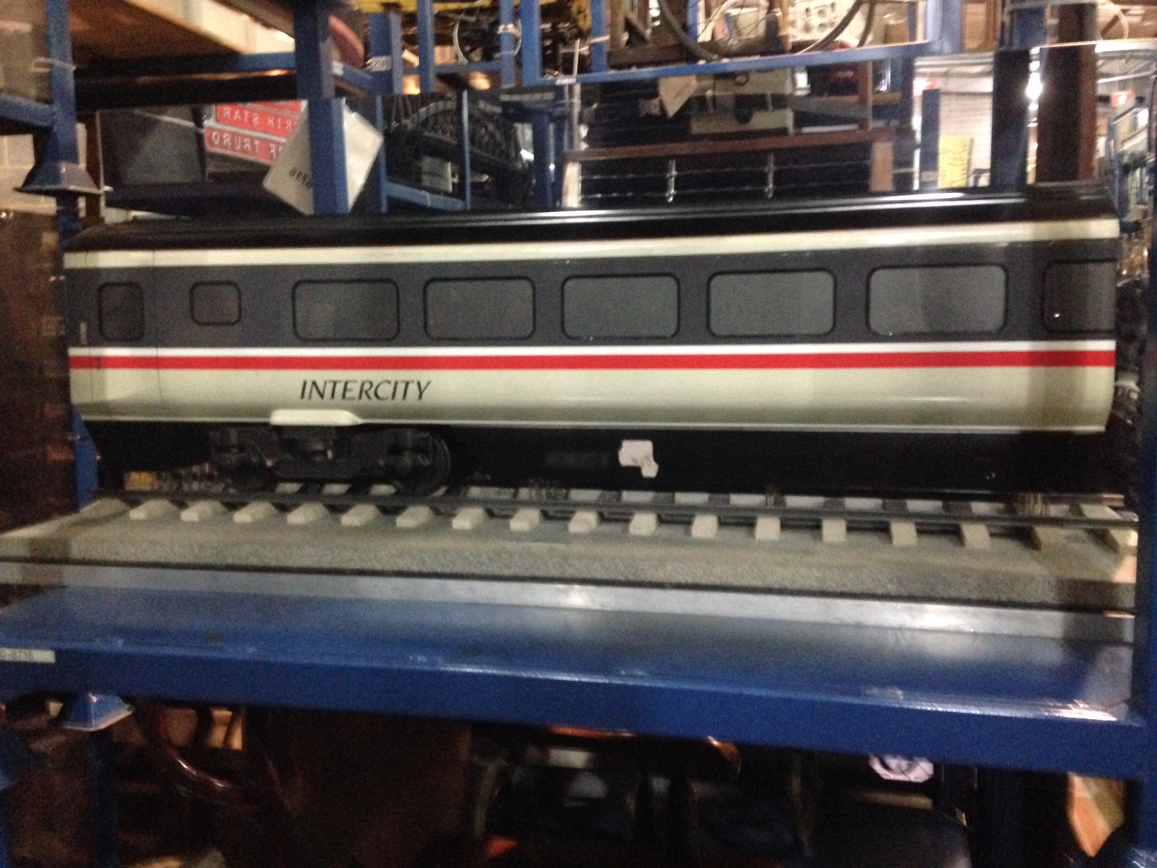 1:20 Model